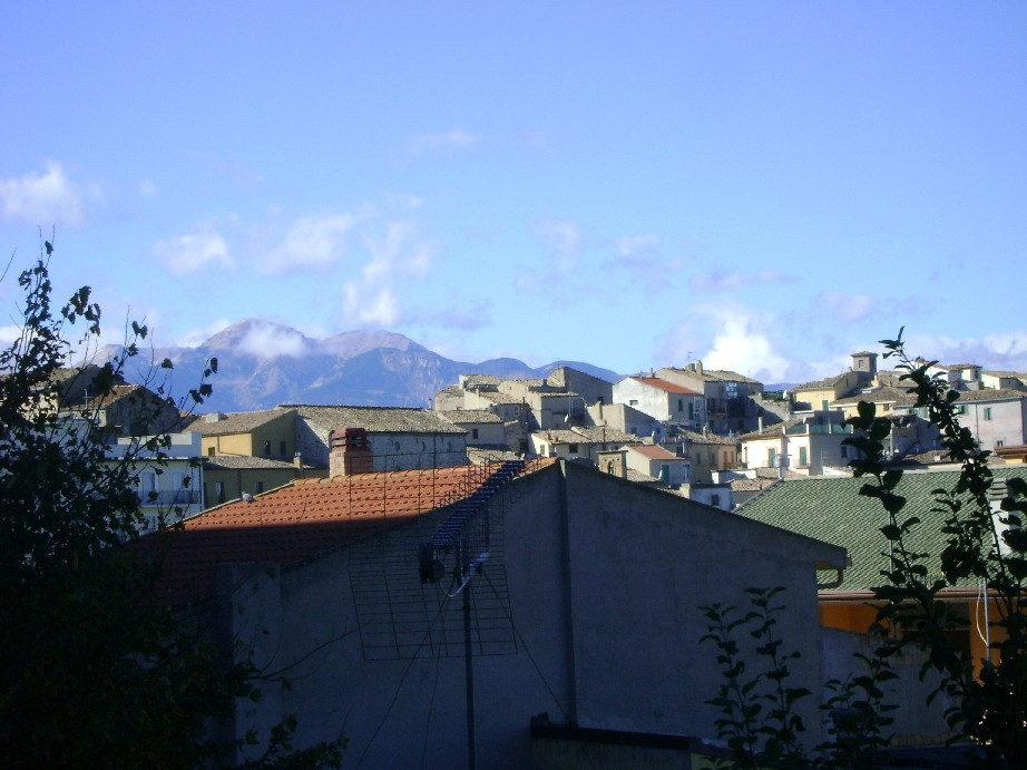 View of the historical center of Atessa